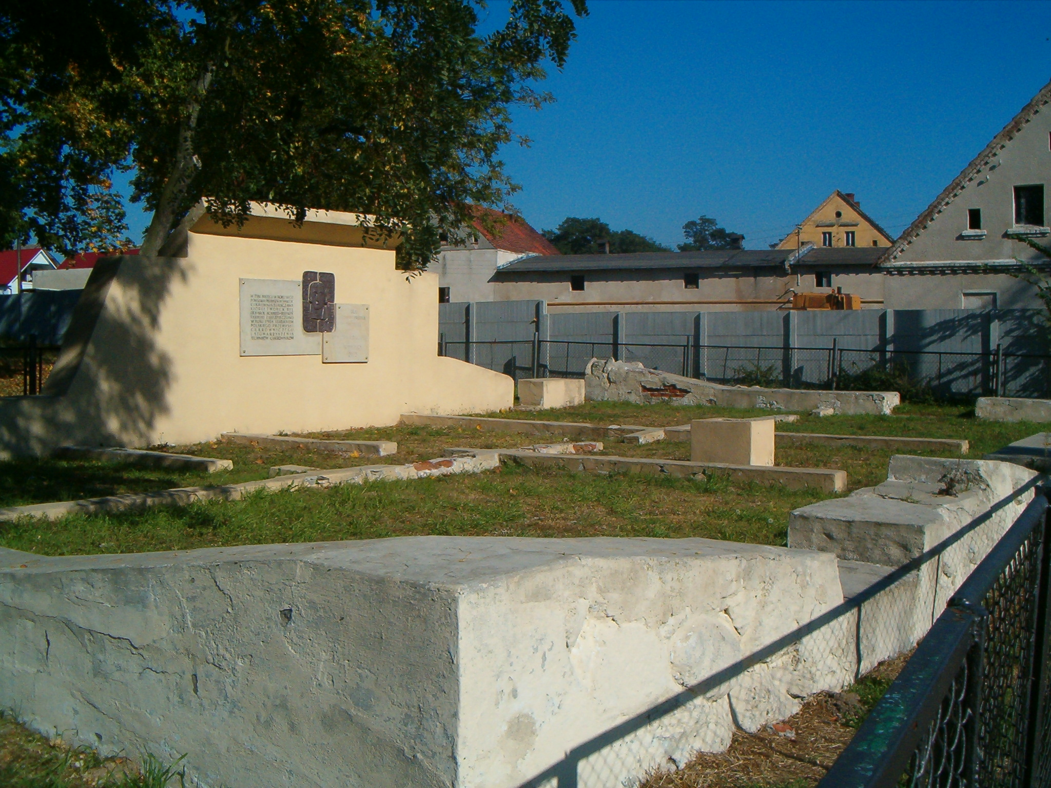 Ruins of sugar factory in Konary, Poland